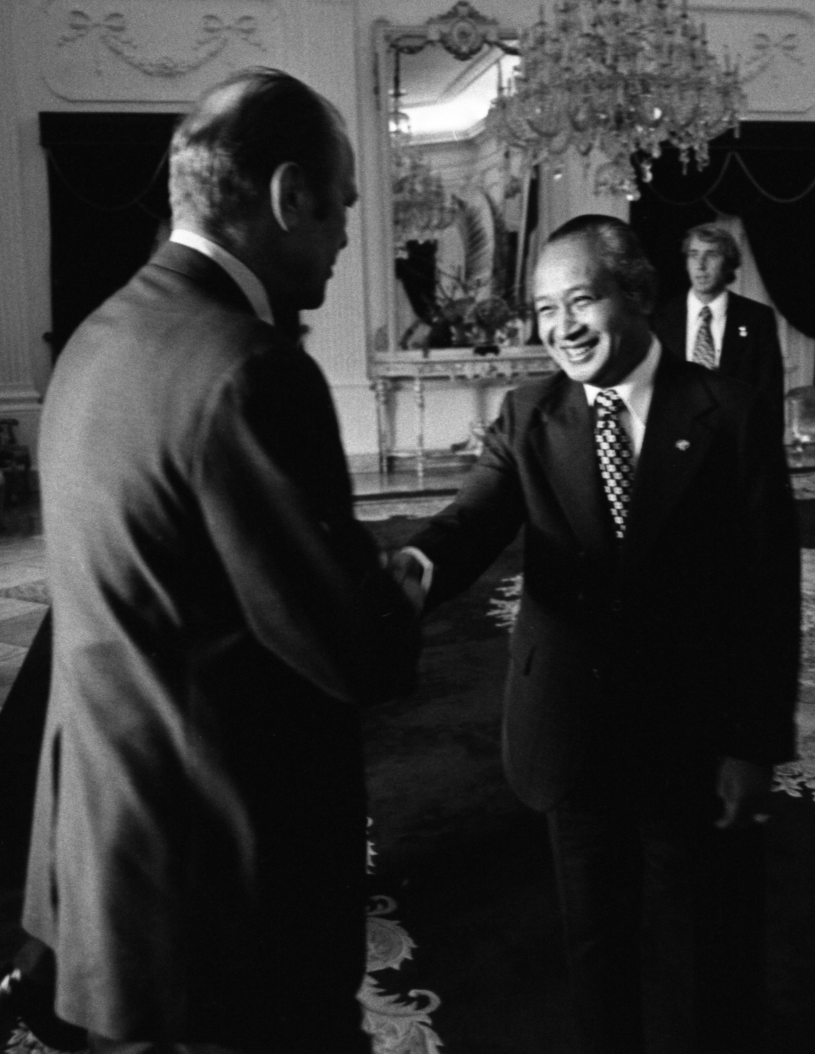 Suharto greeting Gerald Ford. Heads of State Meet Prior to Boarding Motorcade. President's Far Eastern Trip. 1975, December 6 – Istana Merdeka – Jakarta, Indonesia. A7504-14 600dpi scan from Original Negative.